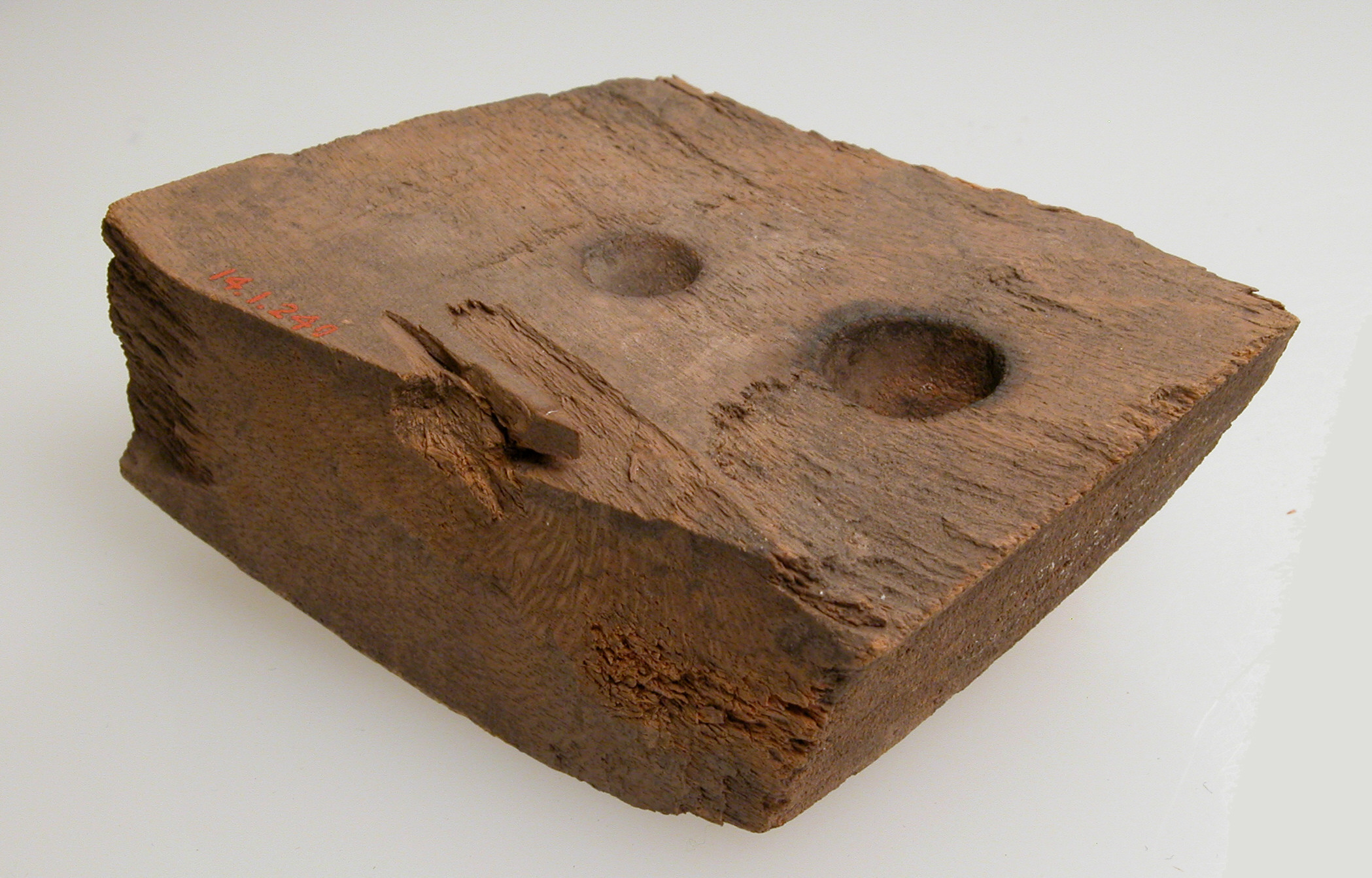 Coptic; Drill; Woodwork-Miscellany